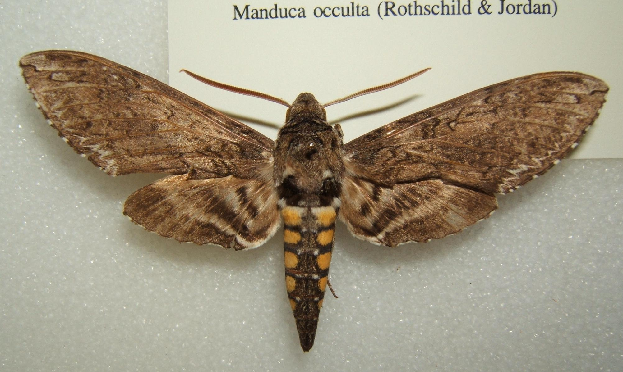 Manduca occulta adult taken by Shawn Hanrahan at the Texas A&M University Insect Collection in College Station, Texas.